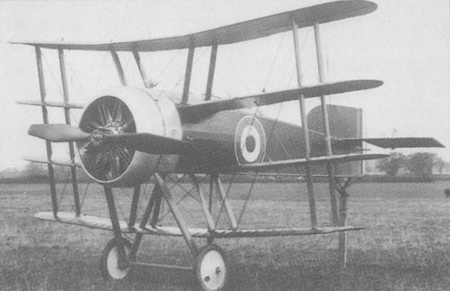 Photo of Wight Quadruplane fighter sanf4u.jpg